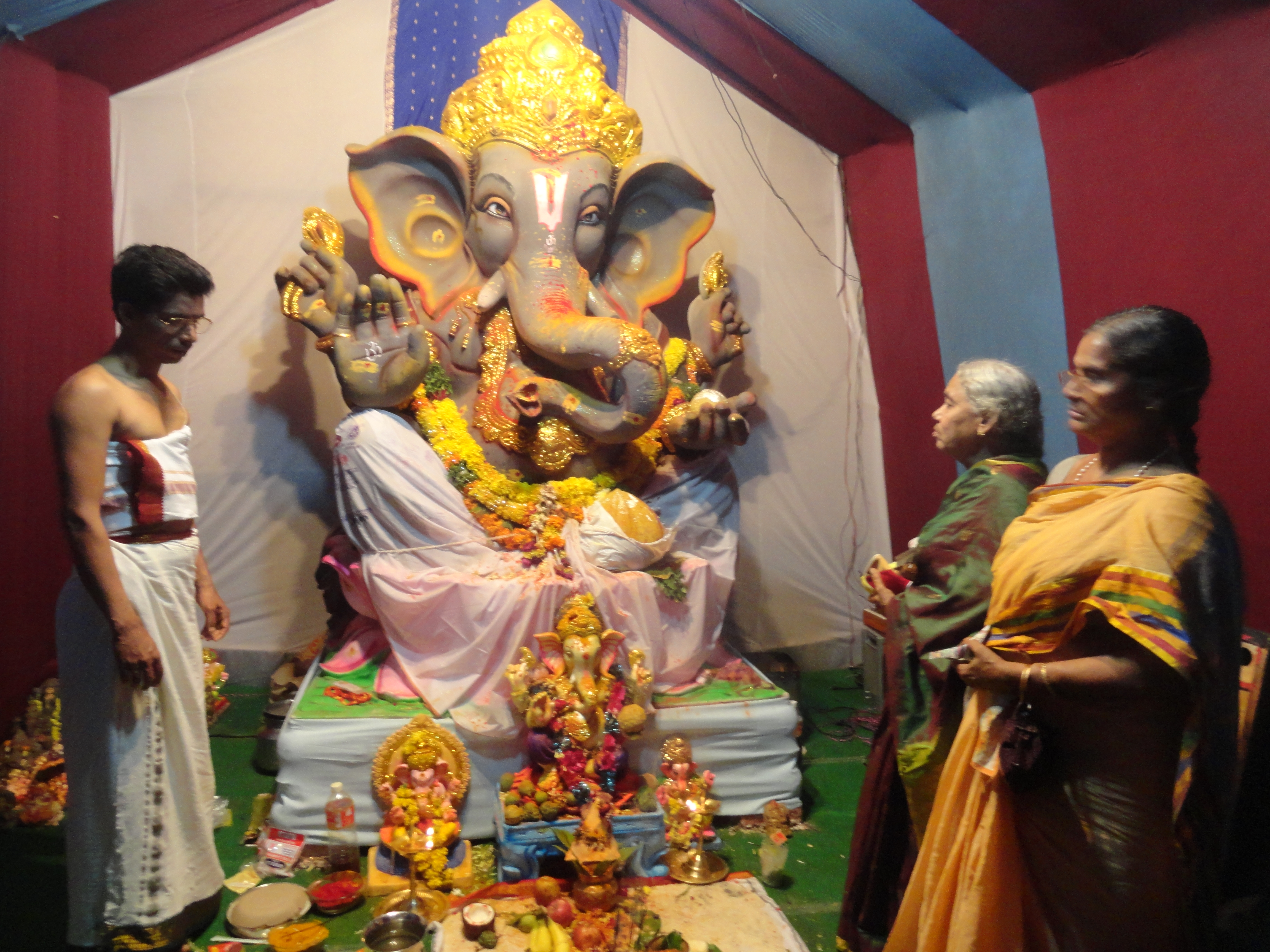 వినాయక చవితి సందర్బంగా అనేక రూపాలలో గనేష్ మహరాజ్. 3